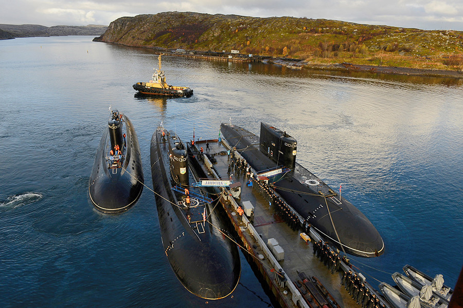 Kaluga, Lipetsk and Yaroslavl in Polyarniy.